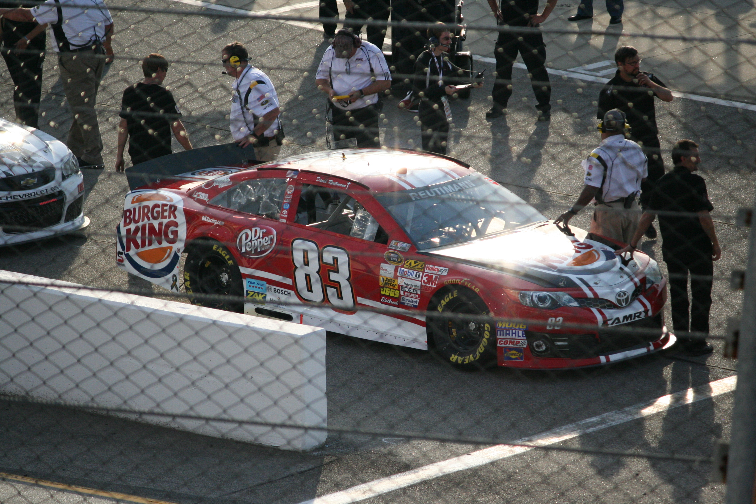 David Reutimann's No. 83 Toyota awaits qualifying for the NASCAR Sprint Cup Series Toyota Owners 400 at Richmond International Raceway, April 26 2013.